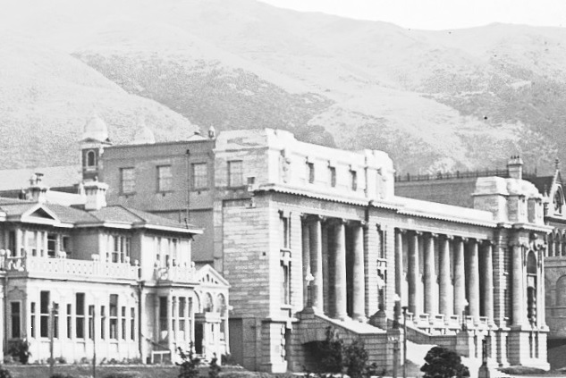 Crop of File:Corner of Bowen Street and Lambton Quay, circa 1929.jpg